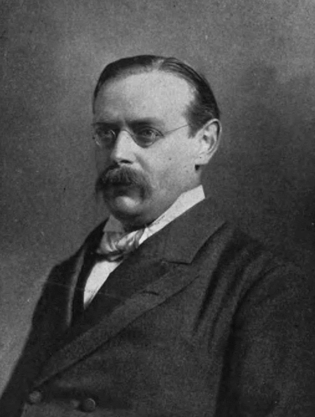 Edmund Gosse